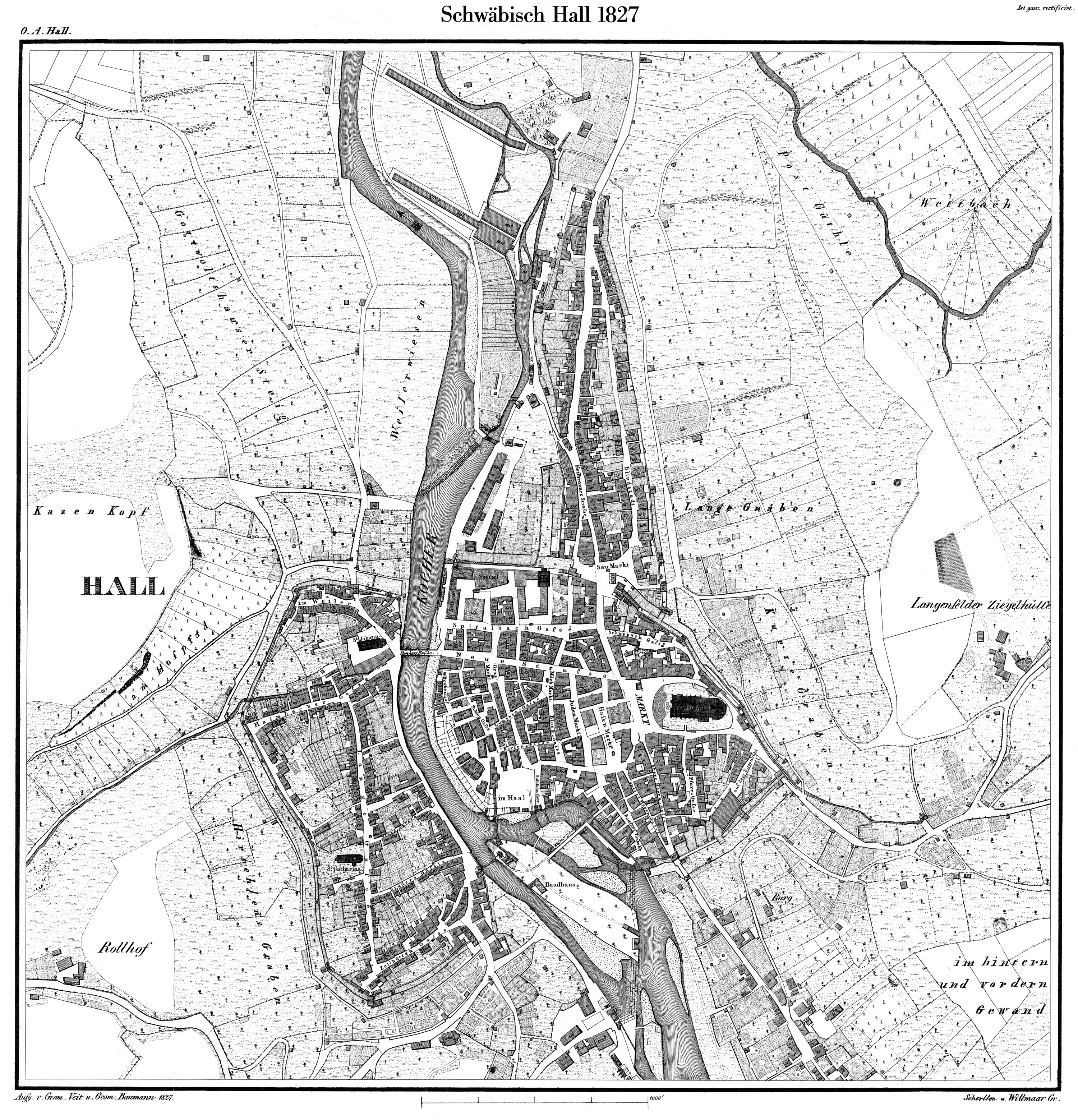 Map of Schwäbisch Hall from 1827, scale 1:2500